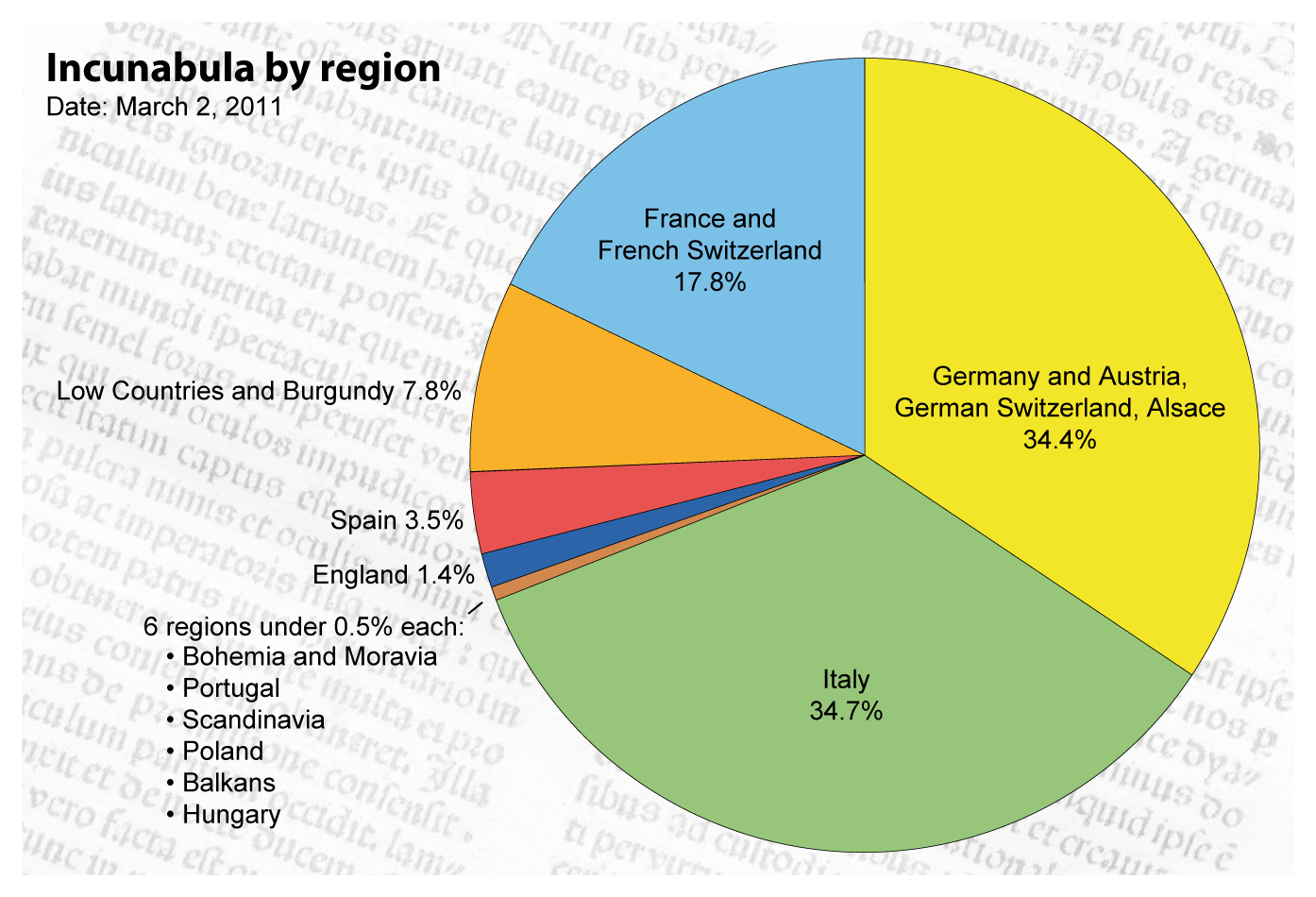 Incunabula distribution by region. The data is based on the Incunabula Short Title Catalogue of the British Library (as of March 2, 2011).